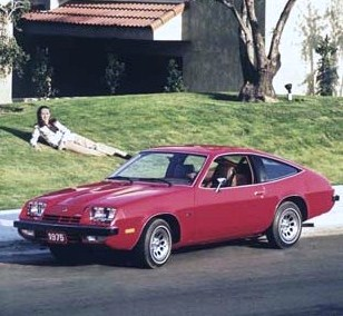 1975 Chevy Monzas